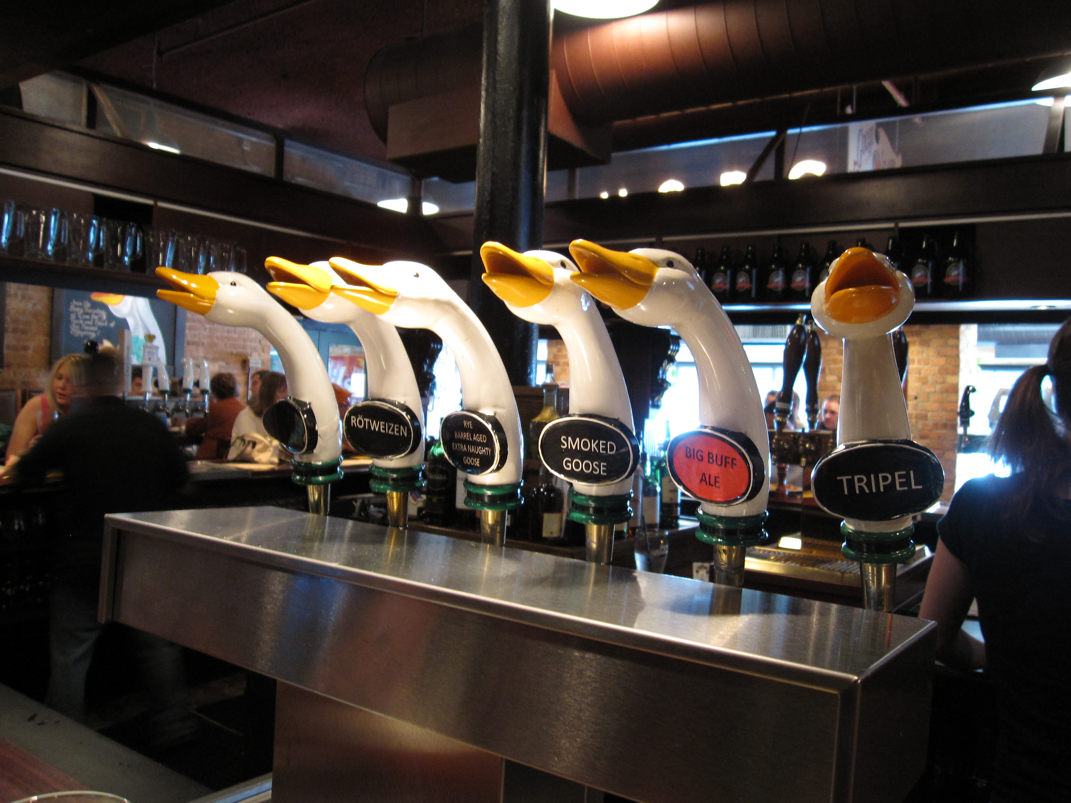 Goose Island Brewpub I guess it's obvious to all, but these are some of the beer taps at the Goose Island Brewpub on Clybourn in Chicago.